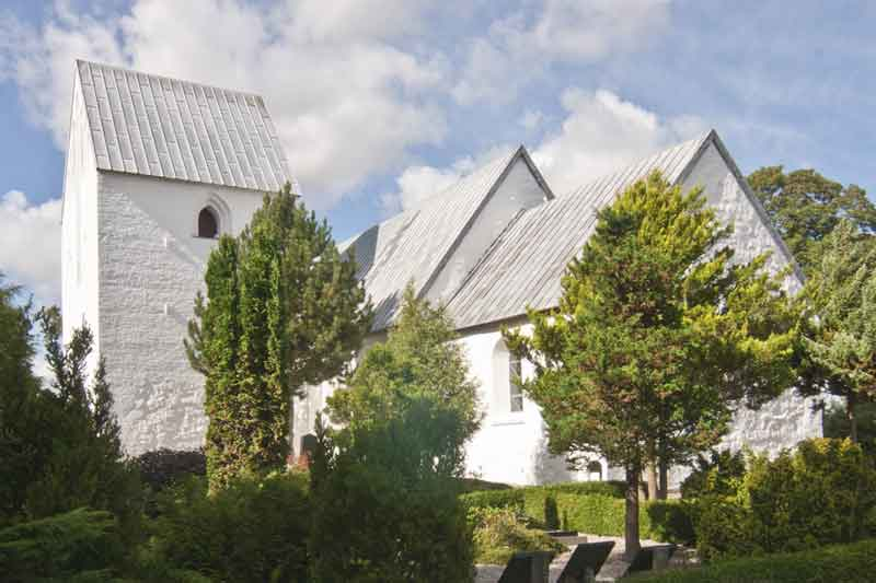 Pjedsted Kirke, a Danish church, situated in the village Pjedsted.